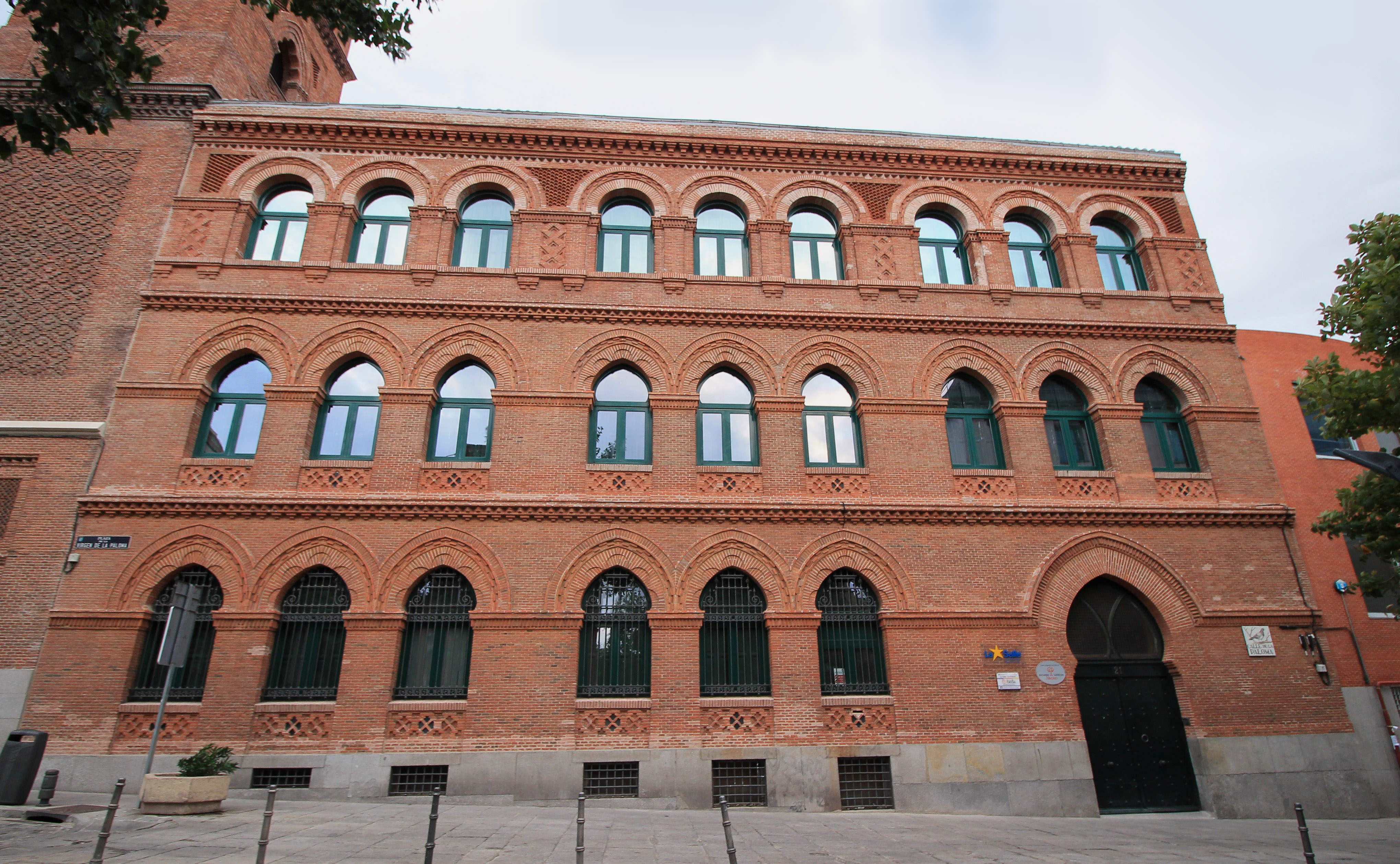 Façade of Colegio La Salle-La Paloma (a school) at 21st Calle de la Paloma (street) in Madrid (Spain). Building designed in 1923 by Jerónimo Mathet and built from 1925 to 1927.